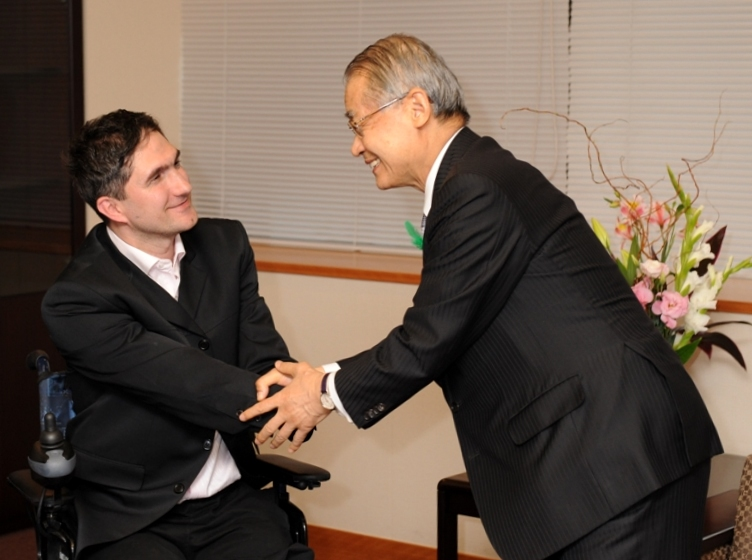 Hitoshi Kimura (on the right) with Branislav Kapetanovic at the Ministry of Foreign Affairs in Japan. In April 2008, the Japan Campaign to Ban Landmines (JCBL) invited cluster munition survivor and CMC spokesperson Branislav Kapetanovic to Japan. Branislav met with Japan’s Vice-Minister of Foreign Affairs and other officials to urge Japan to support a comprehensive ban on cluster munitions in the Oslo Process. Working with the Japan Campaign to Ban Landmines, Branislav gave talks and media interviews to raise awareness of the issue just weeks before the treaty negotiations in Dublin. (revision of the original text) cf. (in Japanese)